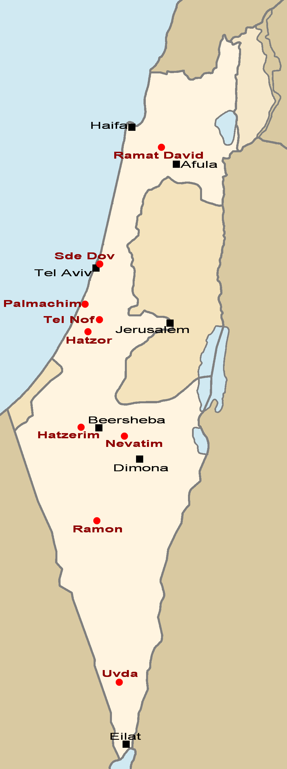 Map of airbases of the Israeli Air Force. Based on original file from Hebrew Wikipedia: IAF Bases Map.png.